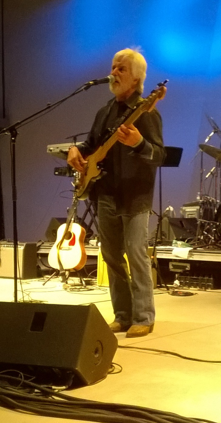 Lance Hoppen, bassist of the group Orleans, onstage with the band at Levitt SteelStacks, Bethlehem, PA